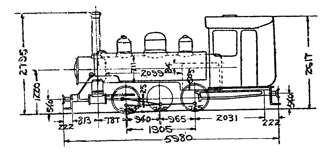 Type drawing of JGGKR's Nakisa type steam locomotive No.23.